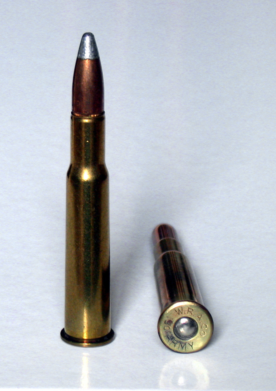 .30-40 Krag rounds